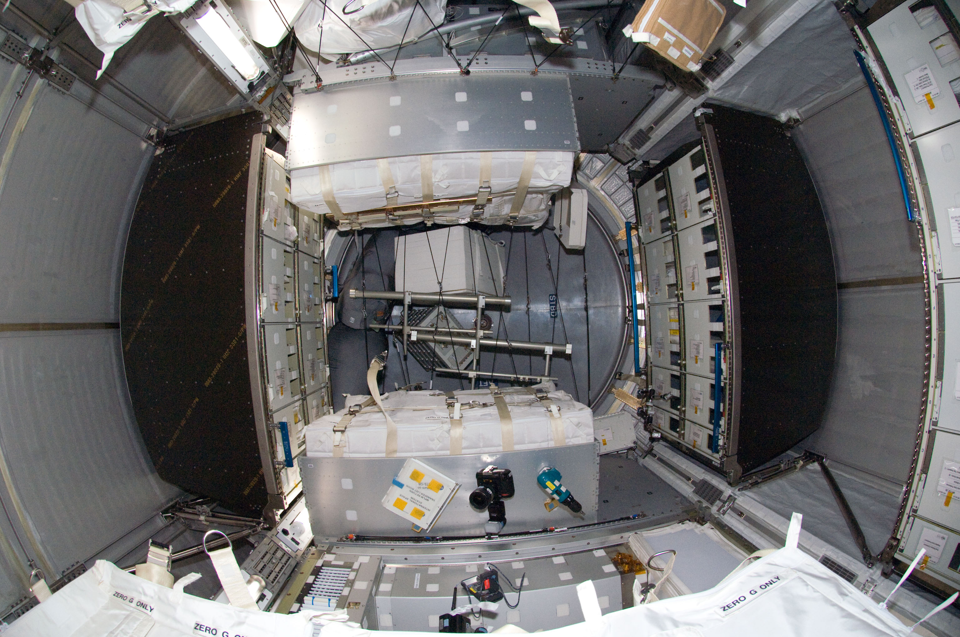 Interior view of the Leonardo Multi-Purpose Logistics Module attached to the Earth-facing port of the International Space Station's Harmony node. Leonardo was moved from Space Shuttle Endeavour's cargo bay and linked to the station on Nov. 17, carrying two water recovery systems racks for recycling urine into potable water, a second toilet system, new gallery components, two new food warmers, a food refrigerator, an experiment freezer, combustion science experiment rack, two separate sleeping quarters and a resistance exercise device (aRED) that allows station crewmembers to perform a variety of exercises.